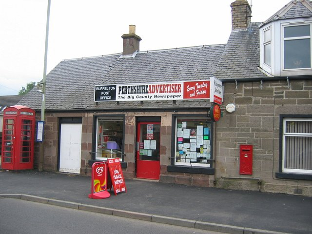 Burrelton Post Office. Right on the line, if not corner of the square, the post office in the village of Burrelton across the A94.